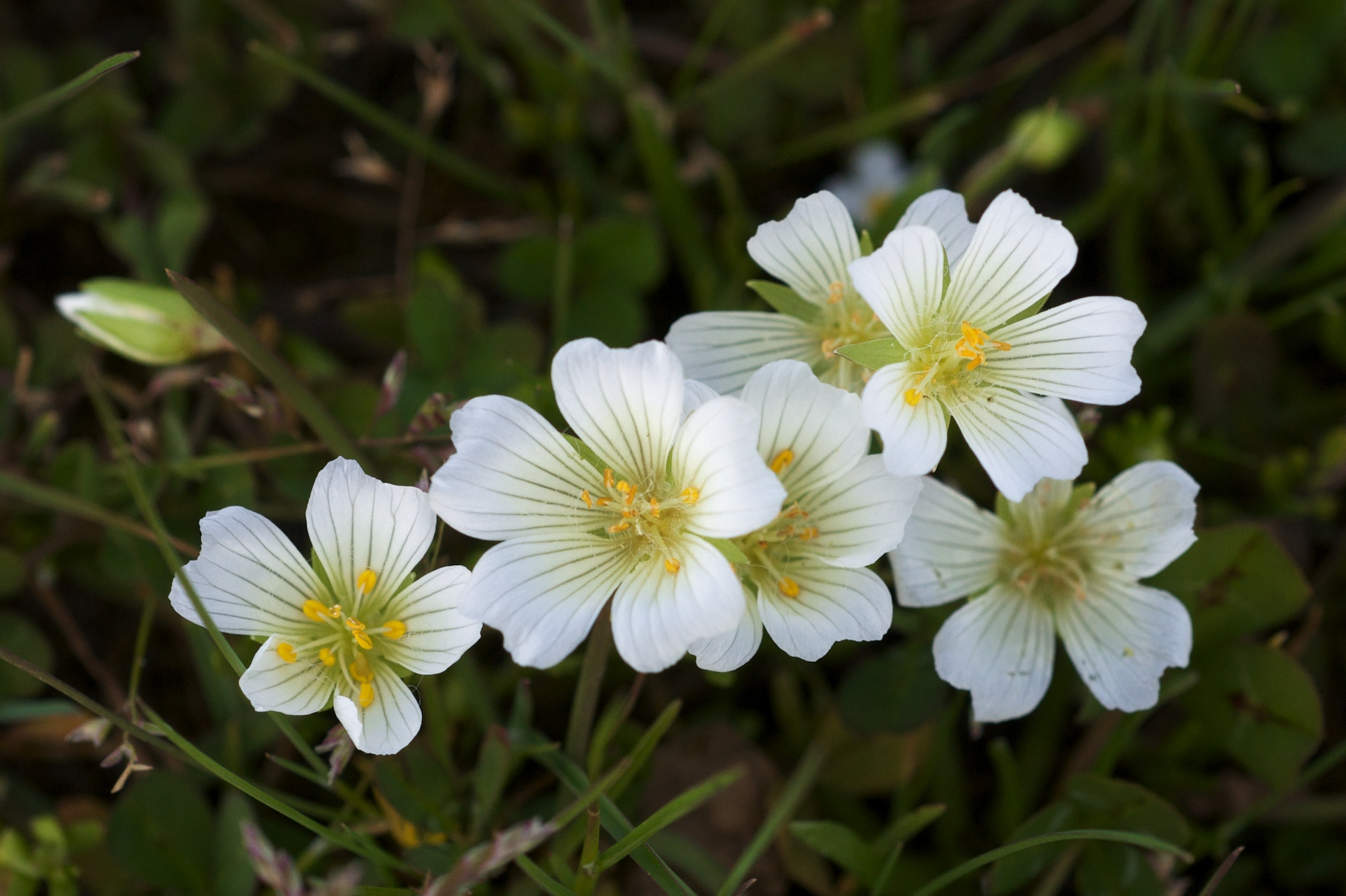 Common name: Wooly meadowfoam Species from California Photographed at North Table Mountain Ecological Reserve, Butte County, California